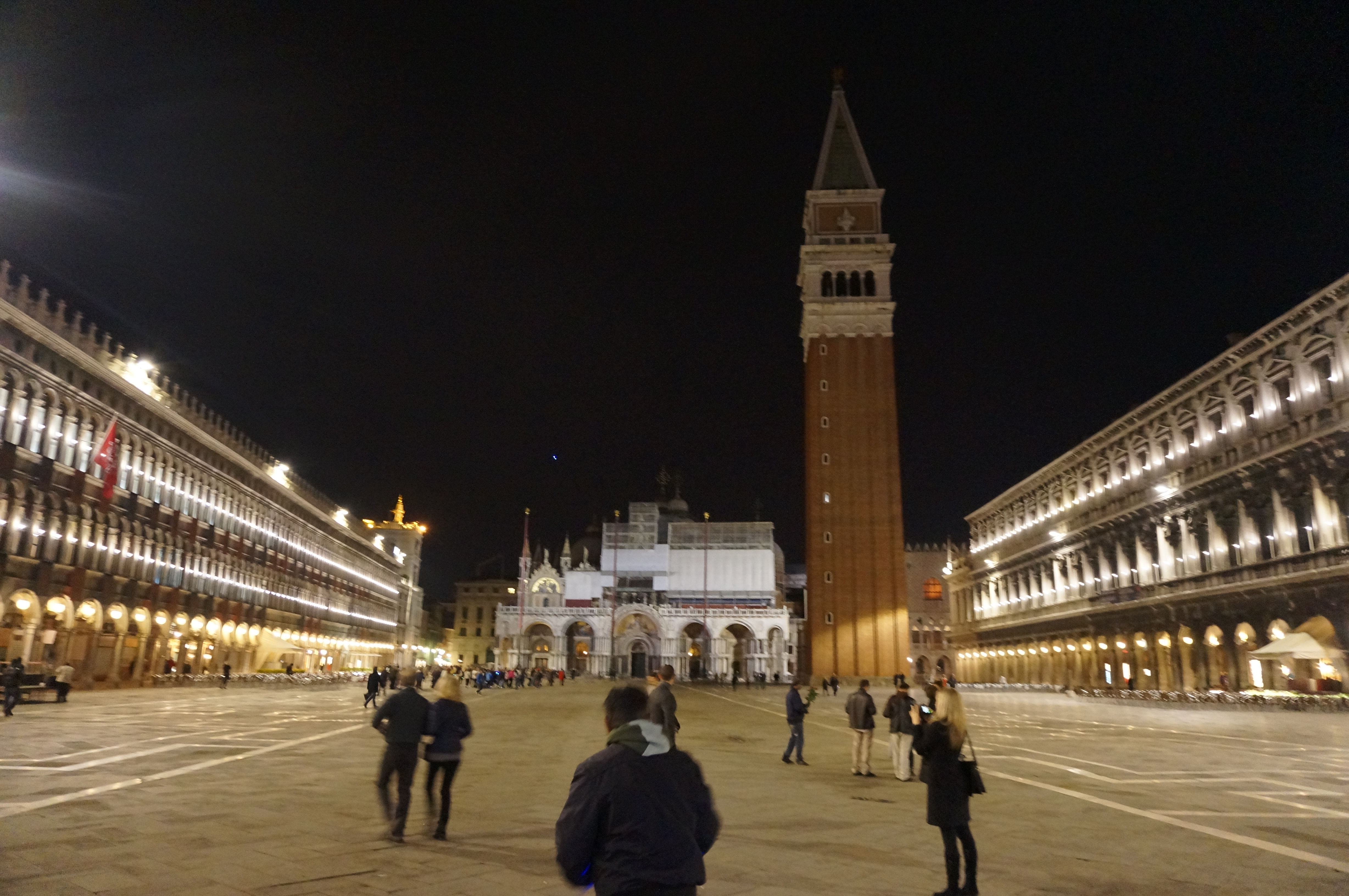 Piazza San Marco Night View, Venezia